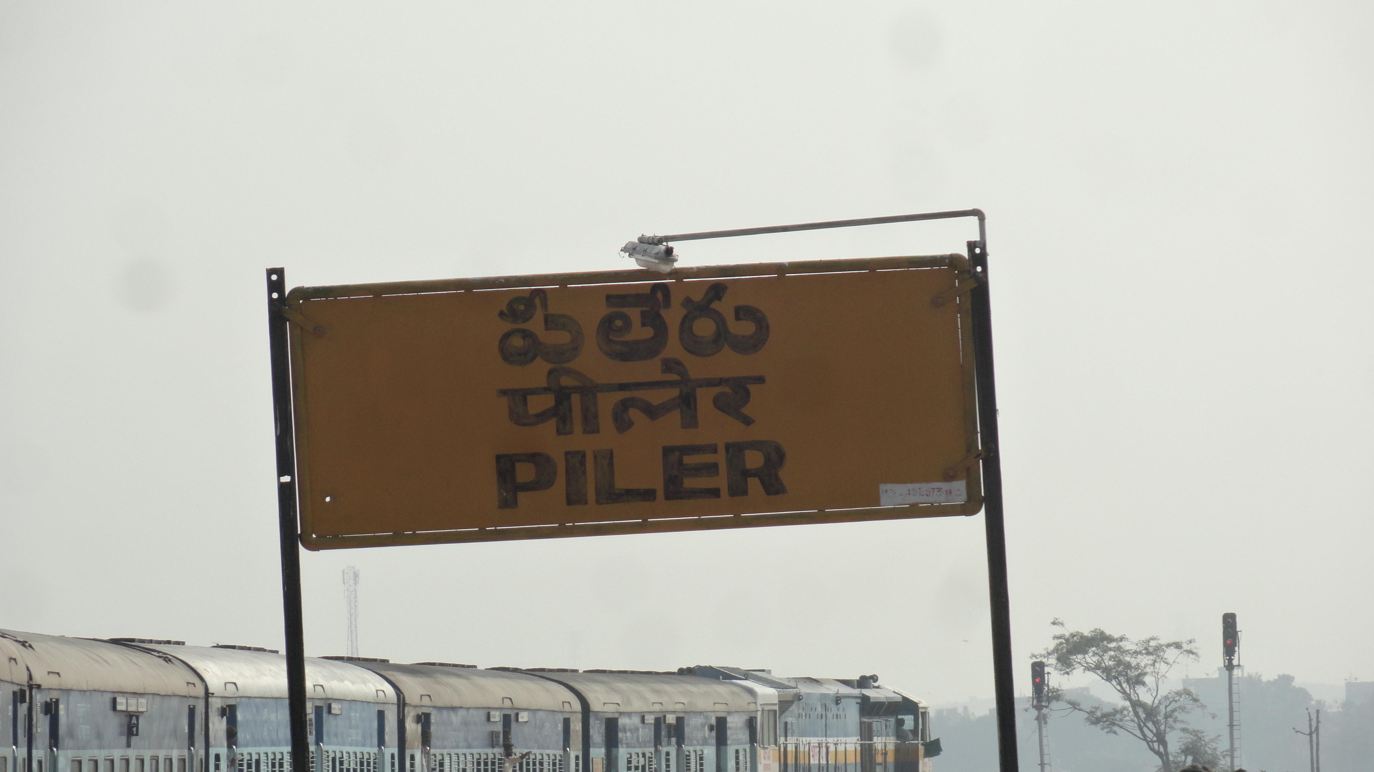 pileru railway station